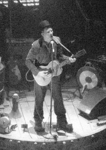 tom waits concert